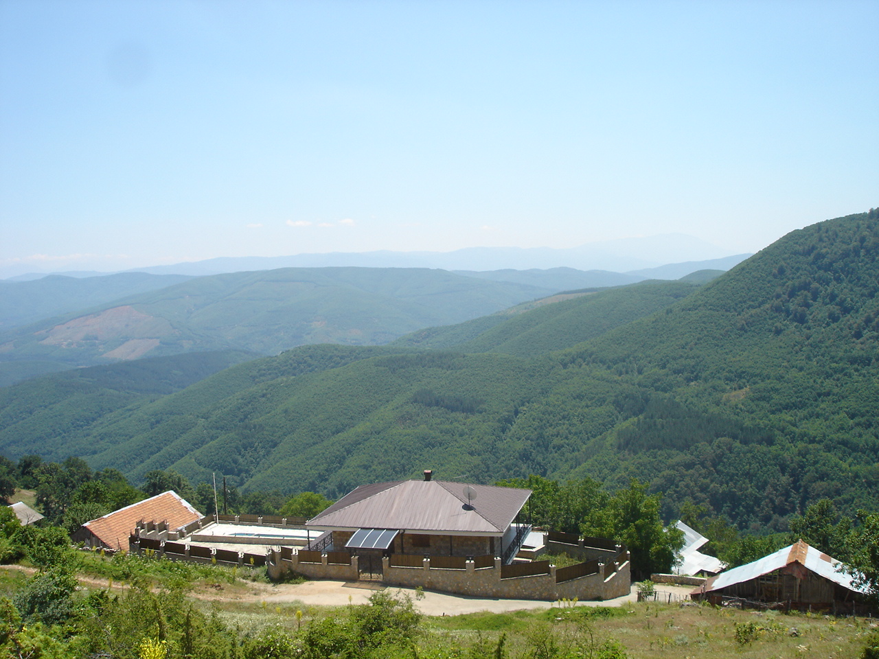 village of Crvena Voda in Debrca municipality, Macedonia